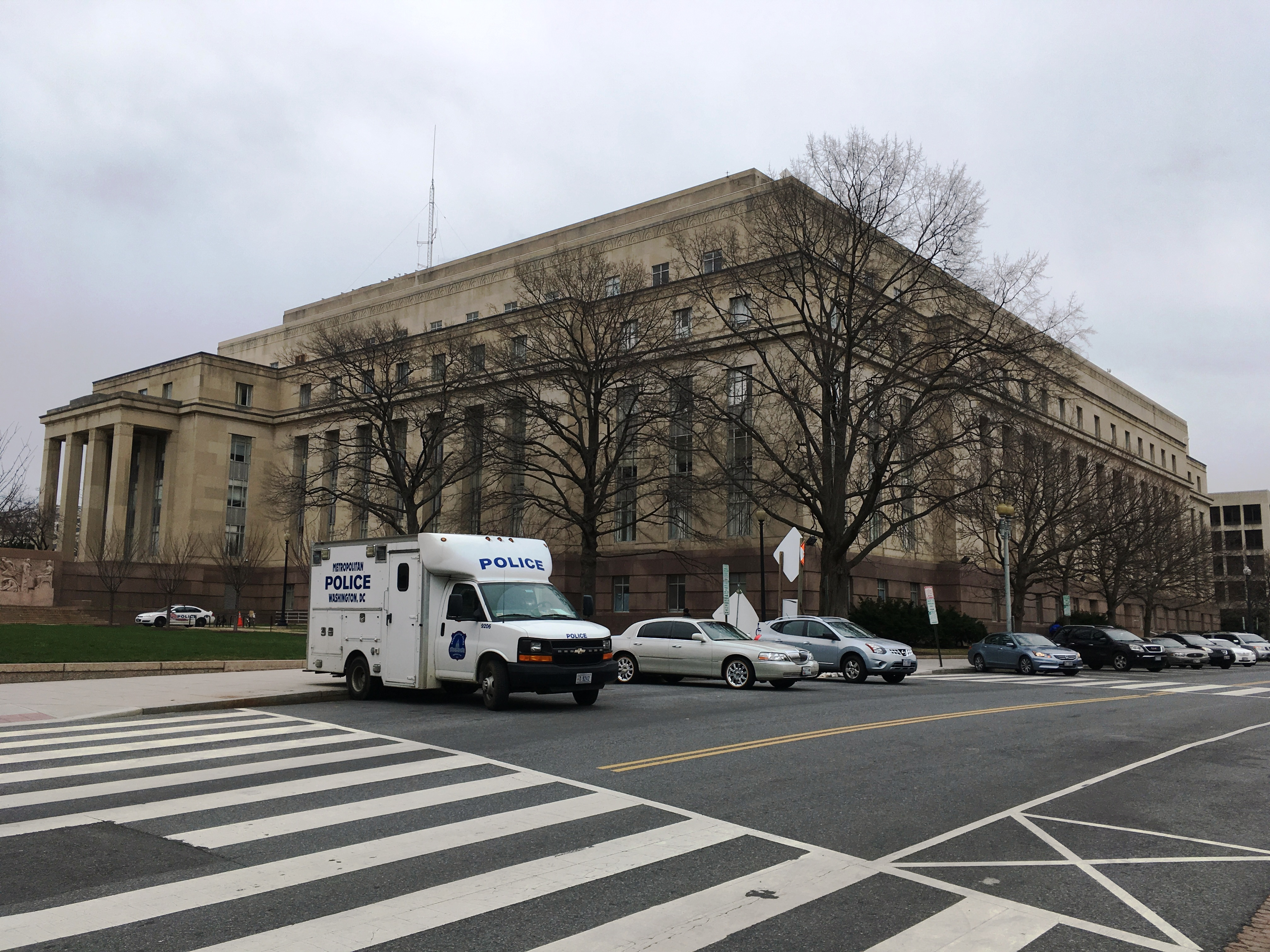 C Street side looking northeast